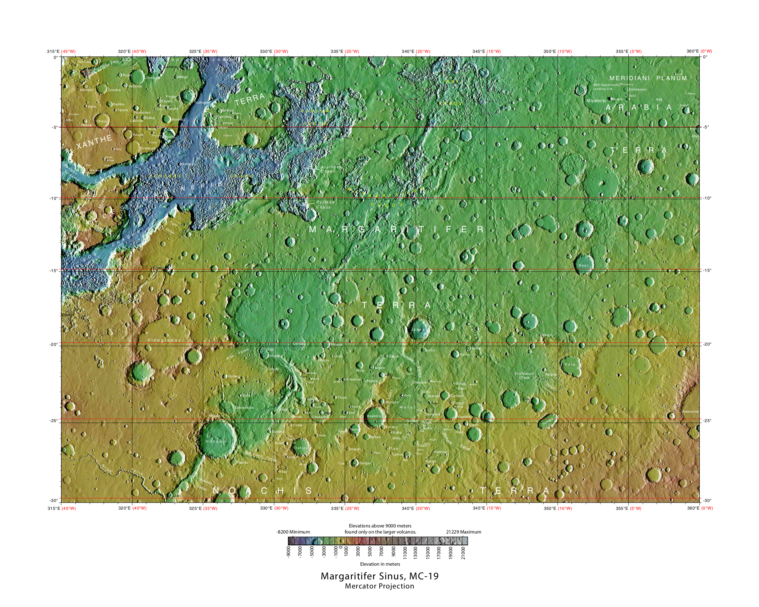 MOLA Topographic Map of Margartifer Sinus Quadrangle (MC-19) on the planet Mars. NOTE: Converted the original PDF file to a PNG File (via GIMP v2.8.4 program) - and uploaded to Wikimedia Commons.